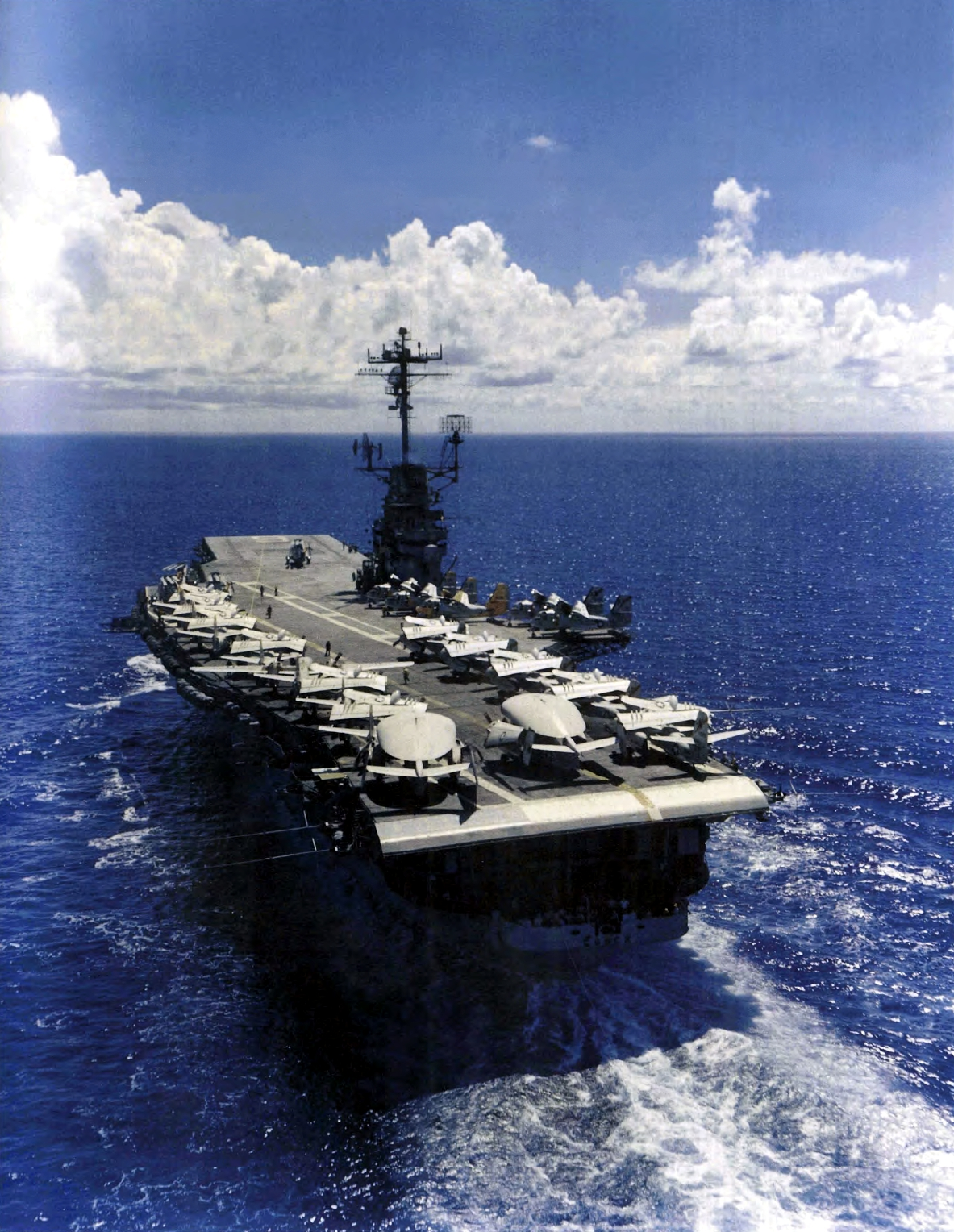 Aft view of the U.S. Navy aircraft carrier USS Essex (CVS-9). On deck are aircraft of Carrier Anti-Submarine Air Group 60 (CVSG-60).